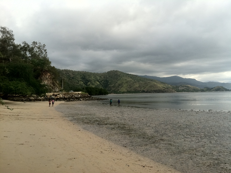 Beach at Lecidere, Dili